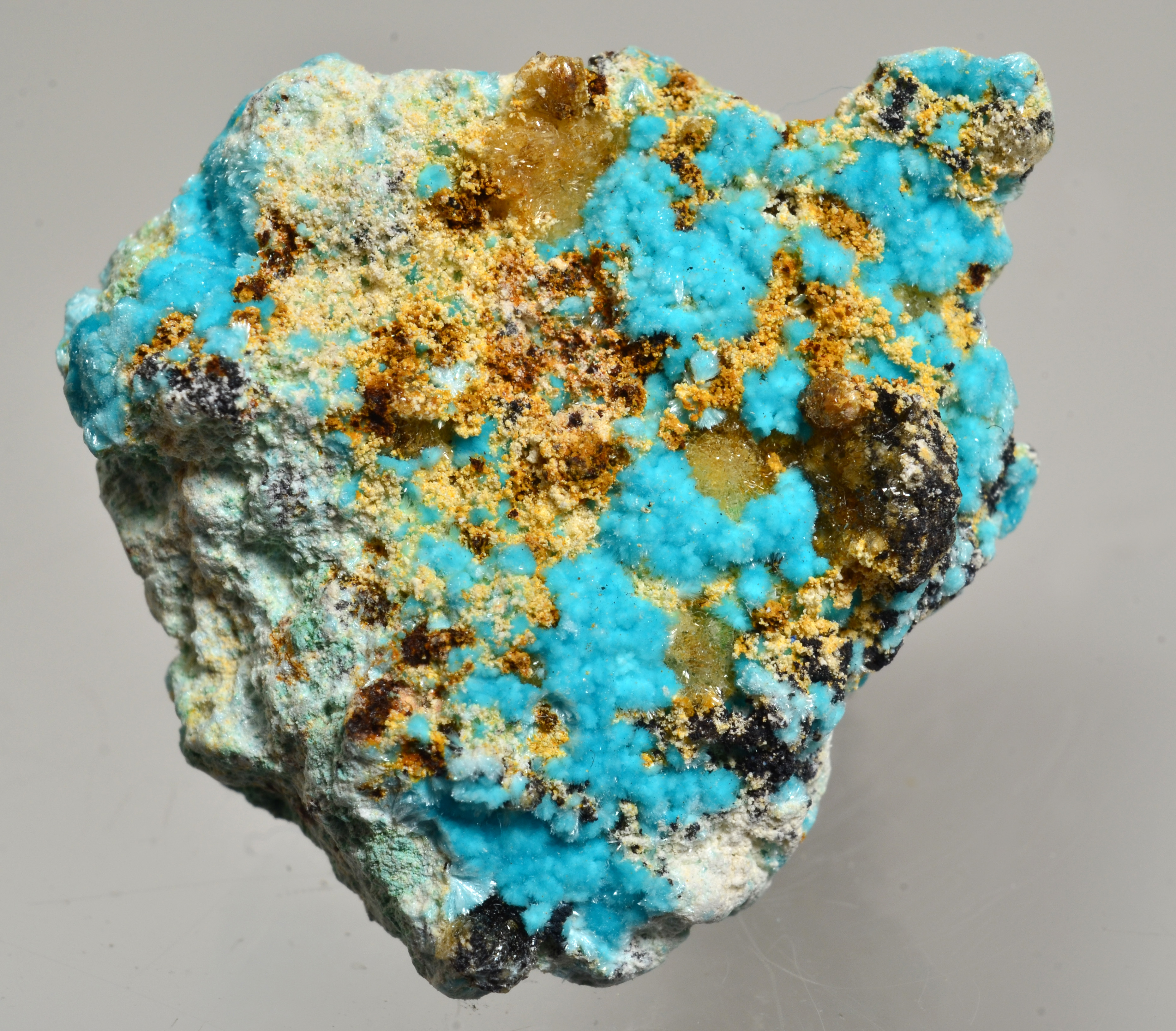 GRCA_108407_ While Grand Canyon is most famous for vast views of towering cliffs, it holds additional geologic treasures, some as tiny as the delicate blue-green needles of a grandviewite crystal. Pete Berry and partners developed the Grandview Mine from two mining claims filed in 1890. The Grandview Trail was built in 1892-1893 to service the mine to haul ore out of the canyon by pack train. The ore consisted mostly of copper sulfate minerals including cyanotrichite, brochantite, and chalcoalumite, along with copper carbonates such as azurite and malachite. Like many historic mines in Grand Canyon, including the Orphan Mine, the mineralized zone is in a breccia pipe, which is a cylindrical mass of highly fractured rock. In the Grand Canyon region, breccia pipes formed from the collapse of solution caverns in the Redwall Limestone. The highly porous brecciated rock in these features was mineralized by copper- and/or uranium-bearing fluids. Learn more here: NPS photo by Michael Quinn